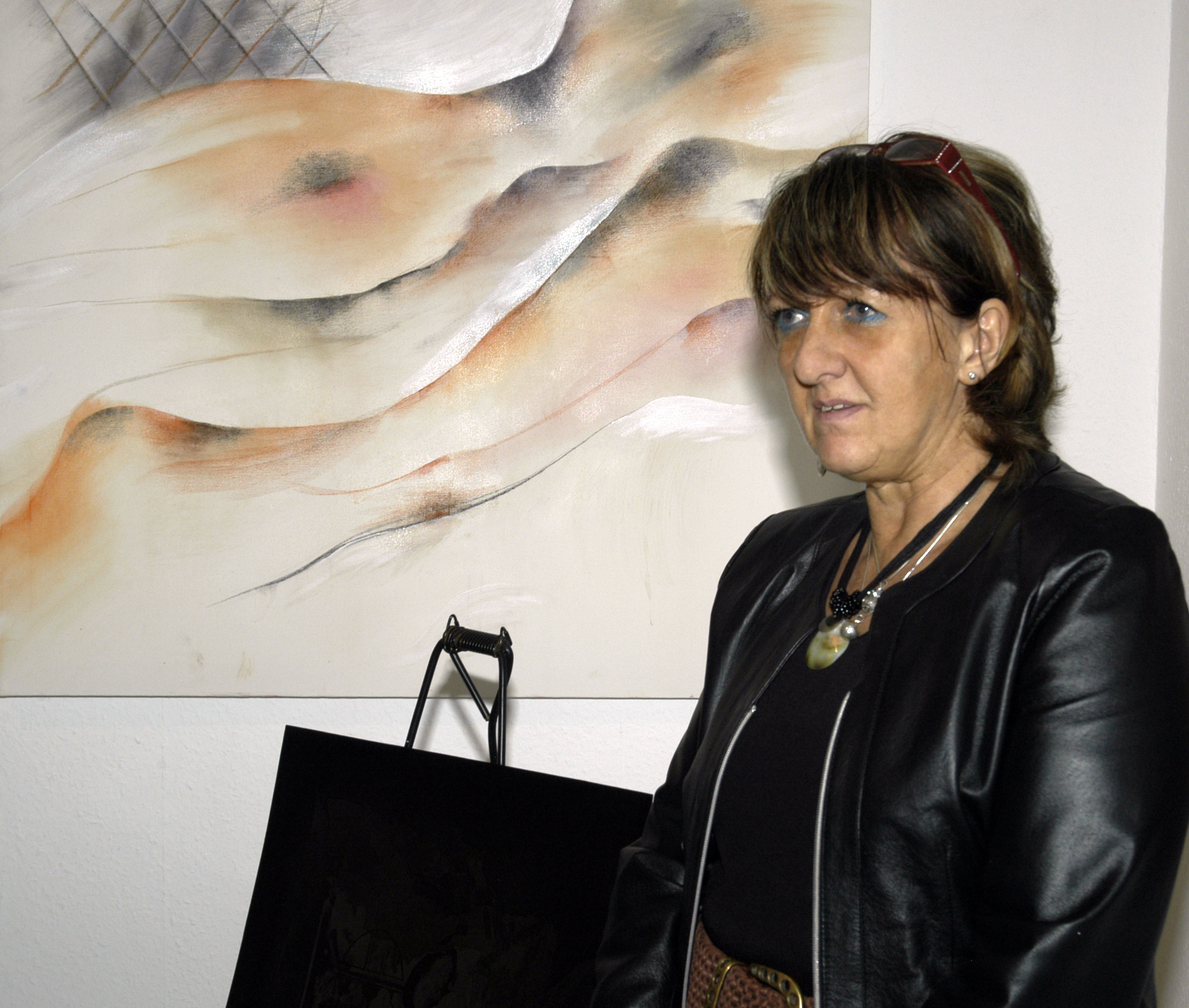 Sofia Fränkl - graphic designer, painter, engraving